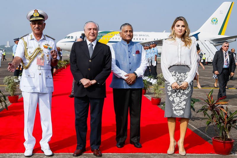 Michel Temer attends the 2016 BRICS summit in Goa, India.